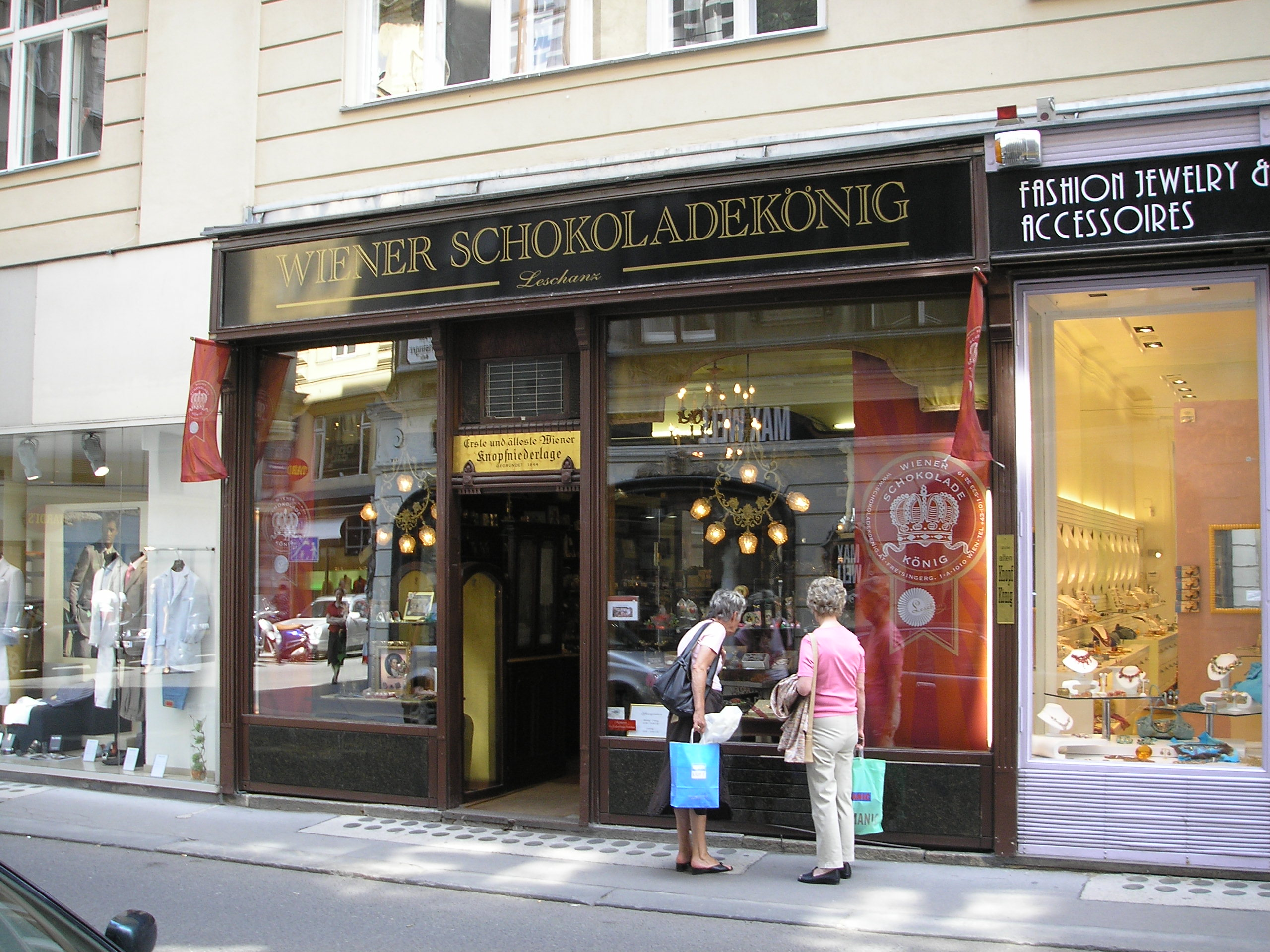 Image of the store Frimmel, also known as the "Knopfkönig". Purveyor to the Imperial and Royal Court in Vienna, for buttons. In Vienna's first district Innere Stadt.